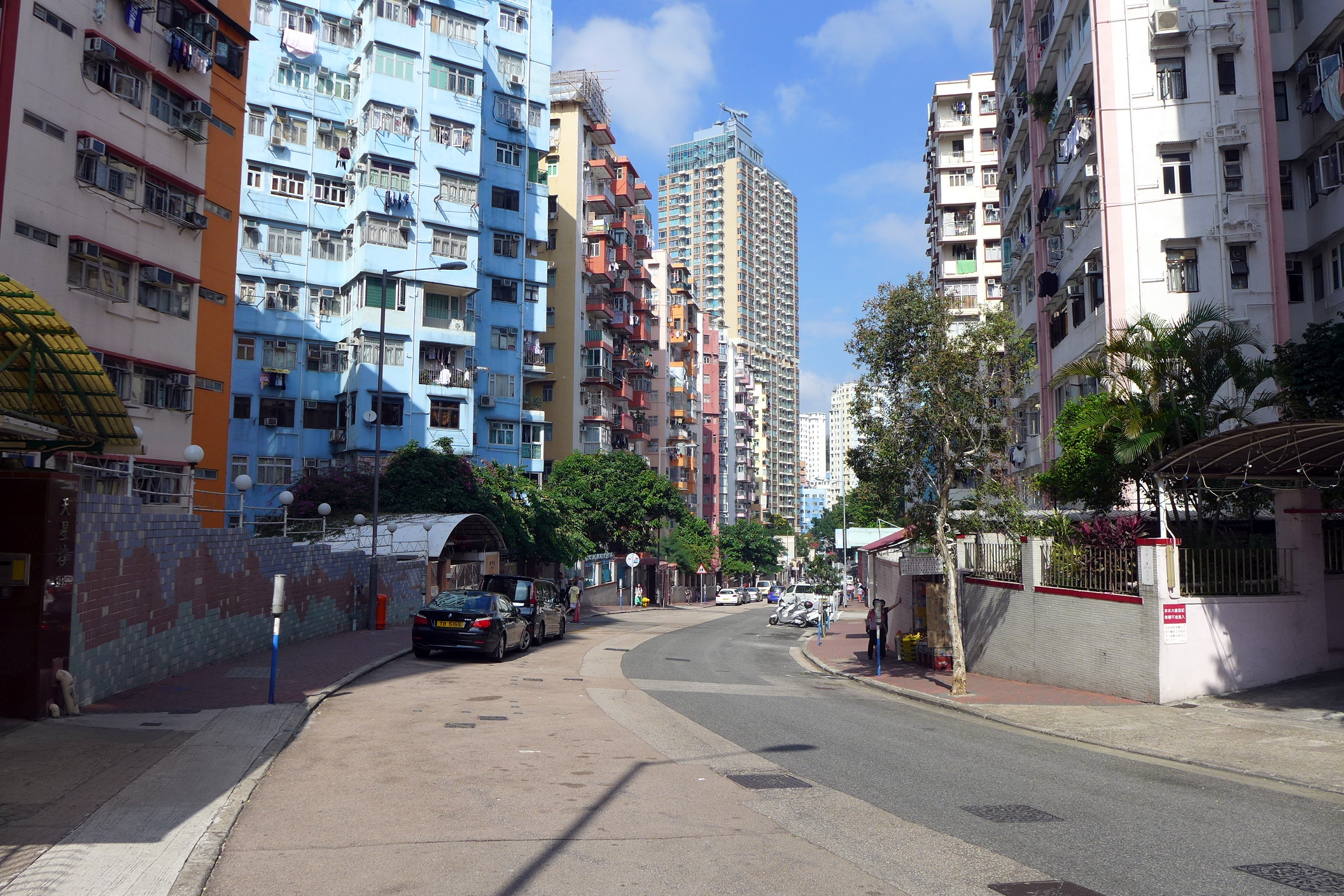 Yuet Wah Street